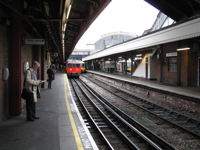 London Paddington - Hammersmith & City Platform The north-eastern extremity of the terminus features the less glamorous suburban and Hammersmith & City routes.